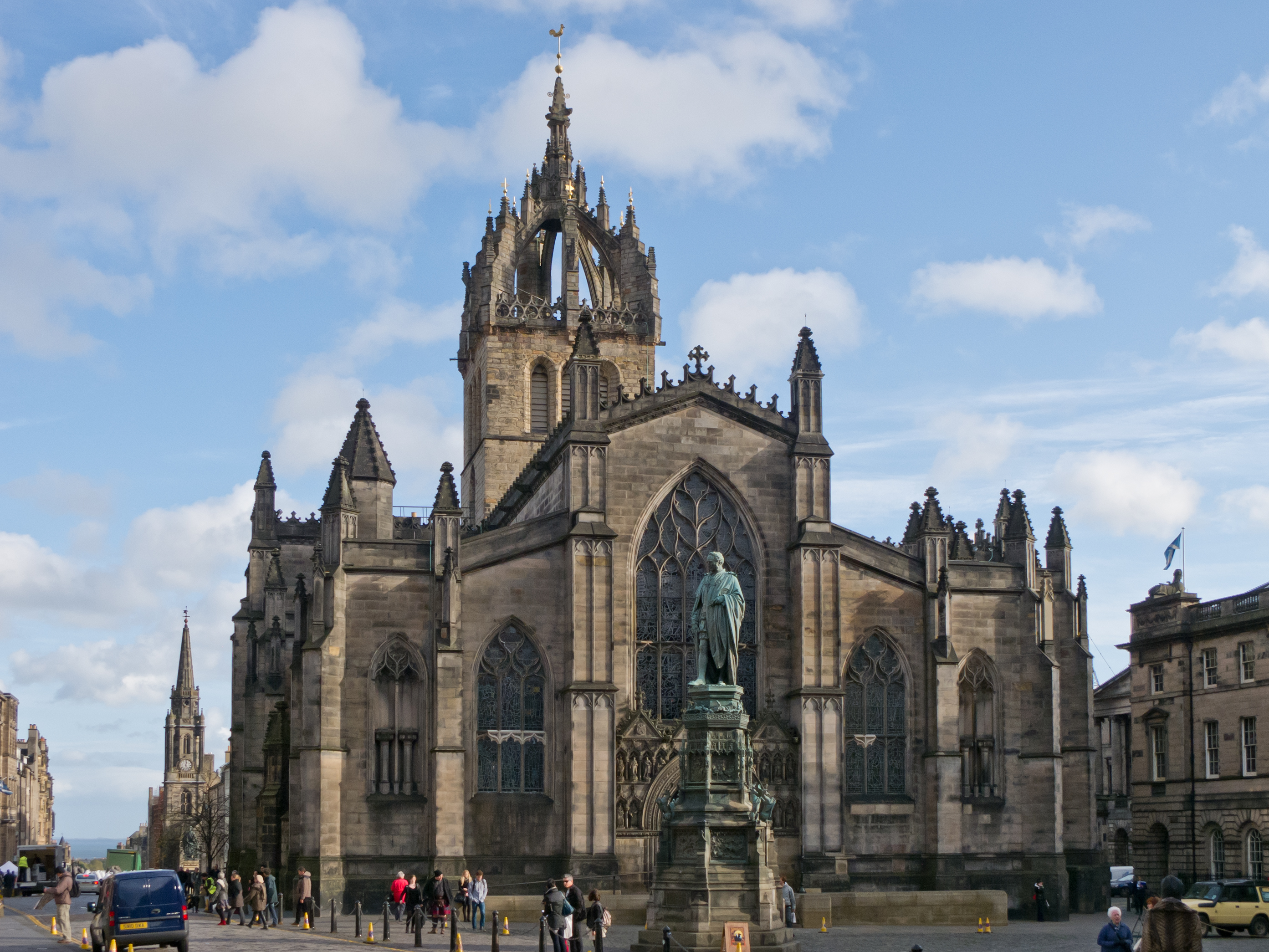 St Giles' Cathedral, Edinburgh, Scotland, UK. Wikidata has entry Q1547466 with data related to this building.